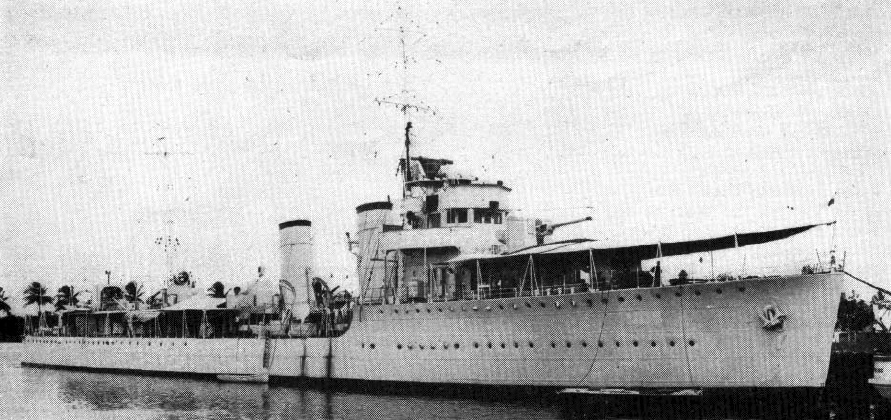 The Colombian Navy destroyer ARC Caldas. She was a Porutgese Duoro-class destroyer (ex Tejo) built at Estaleiro Real de Lisboa, Portugal, in 1934 and served until 1961.